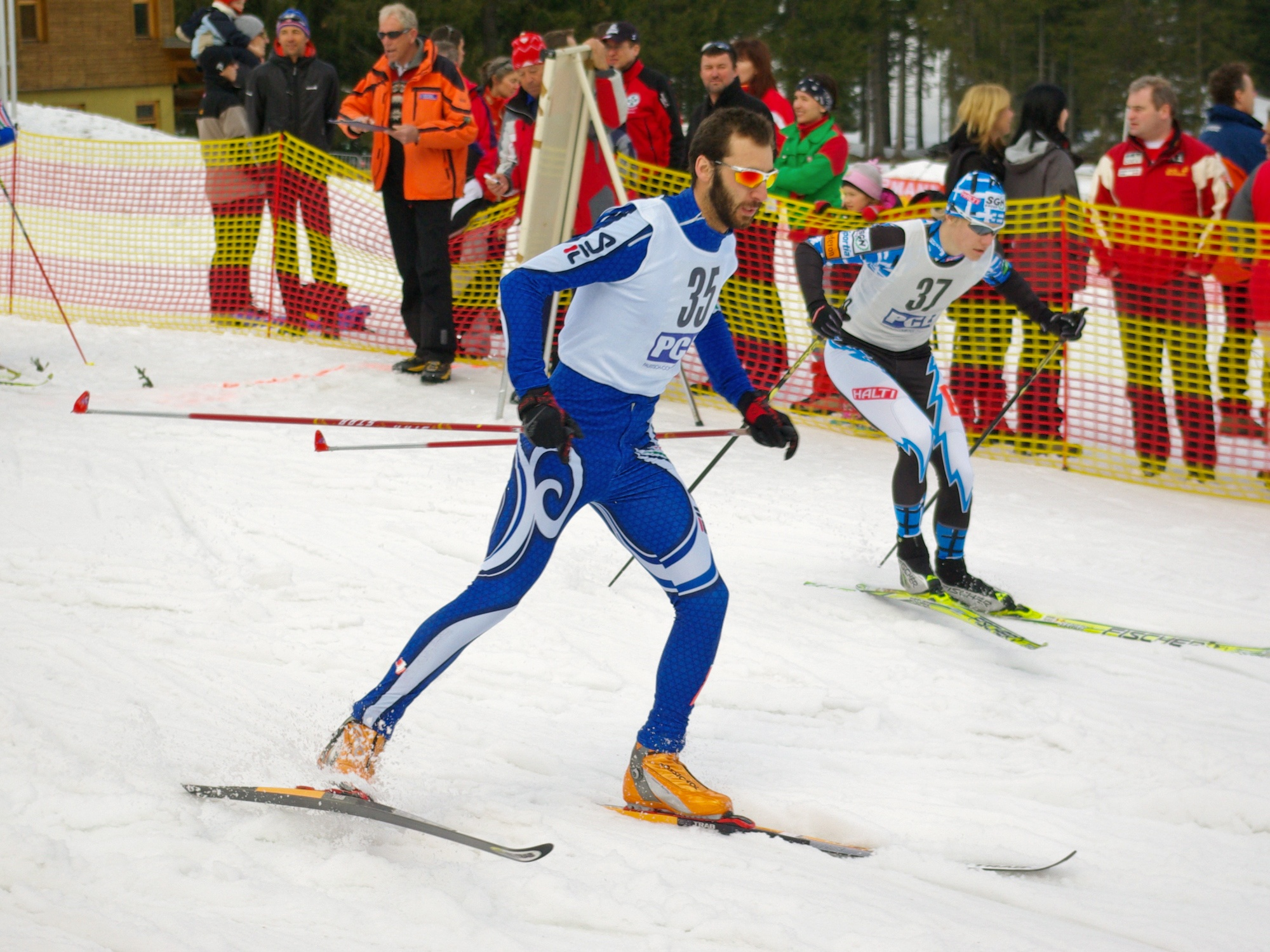 Italian nordic combined skier Daniele Munari during the World Cup B sprint event in Eisenerz (Austria) on 9 March 2008.